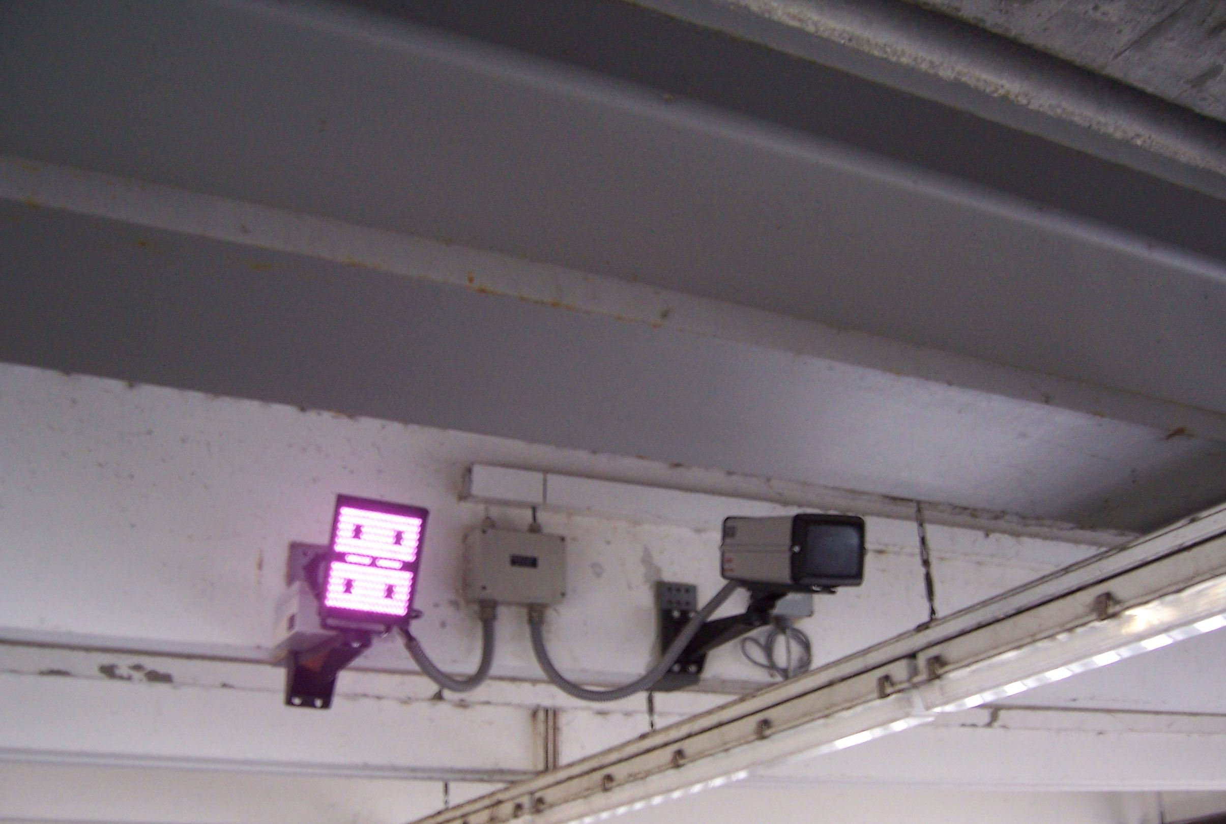 Swiss European surveillance: facial recognition and vehicle make, model, color and license plate reader. Used in Germany and Switzerland for tracking you and logging your movement for future reference.